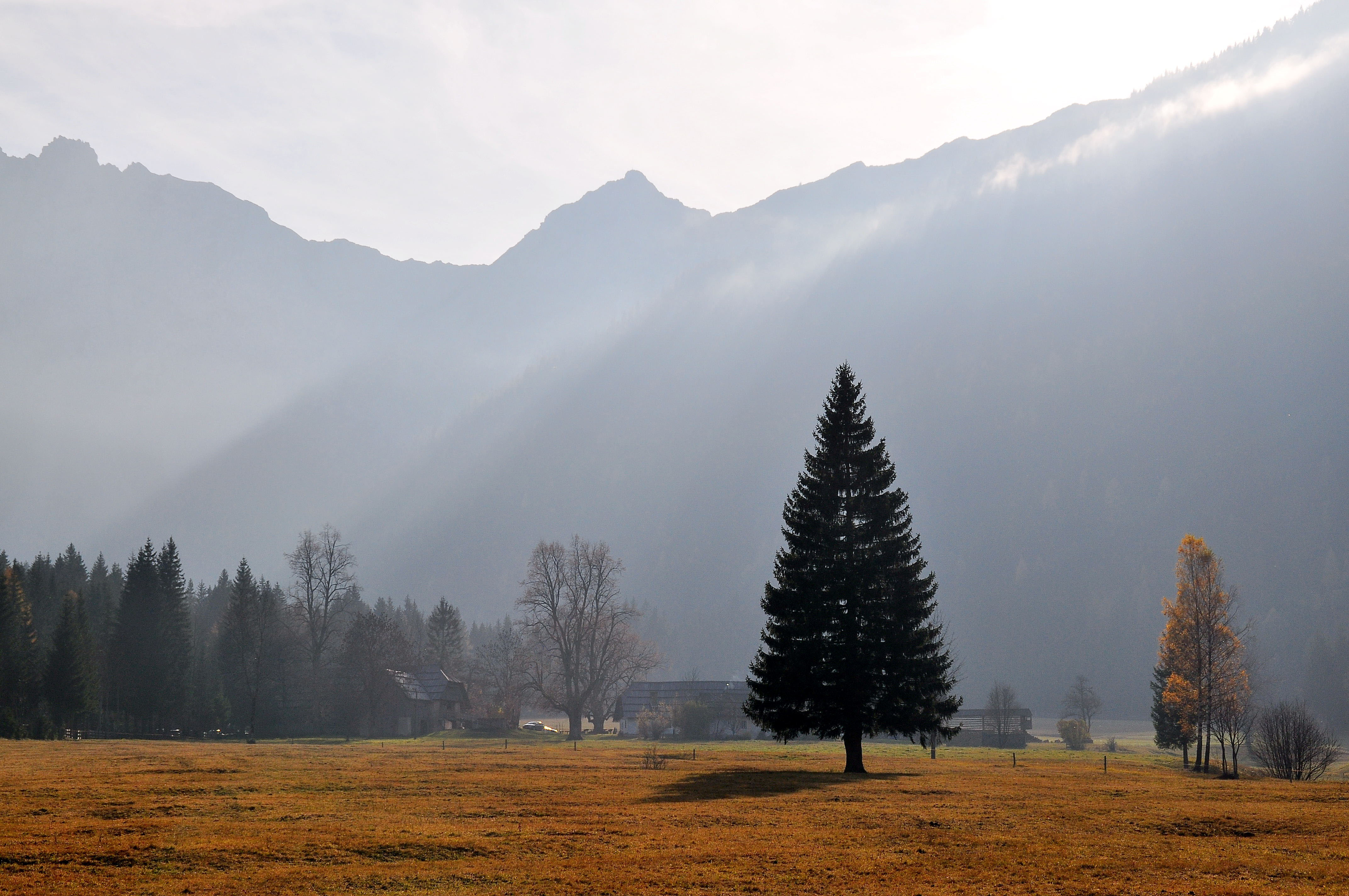 Autumnal landscape near Bodenbauer farm (slow. Podnar) in Bodental valley / Ferlach / district Klagenfurt-Land / Carinthia / Austria / EU.